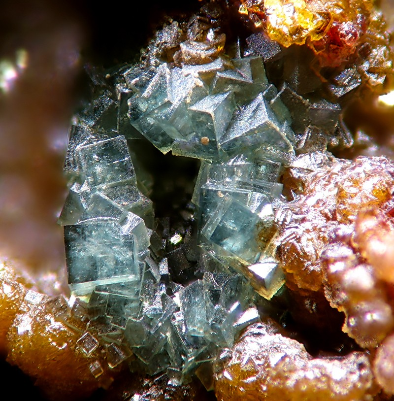 Pharmacosiderite Locality: Alto das Quelhas do Gestoso Mines, Gestoso, Manhouce, São Pedro do Sul, Viseu District, Portugal Picture width 2.5 mm. Collection and photograph Christian Rewitzer Analysed specimen